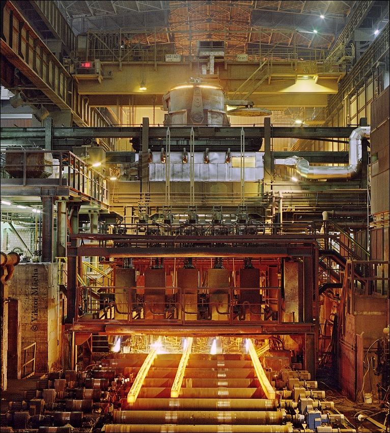 Five-stand continuous caster at the Feralpi Stahl Riesa steel plant.